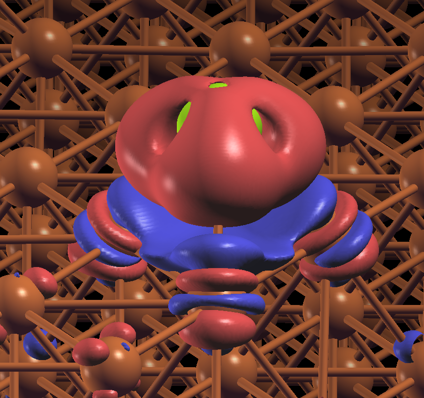 Electronic density difference of chlorine atom adsorbed on copper 111 surface at coverage of 1/3 monolayer as a result of density functional theory calculation. Red regions represent the abundance of electrons, whereas blue regions represent deficit of electrons. Picture generated by XCrySDen visualization program.